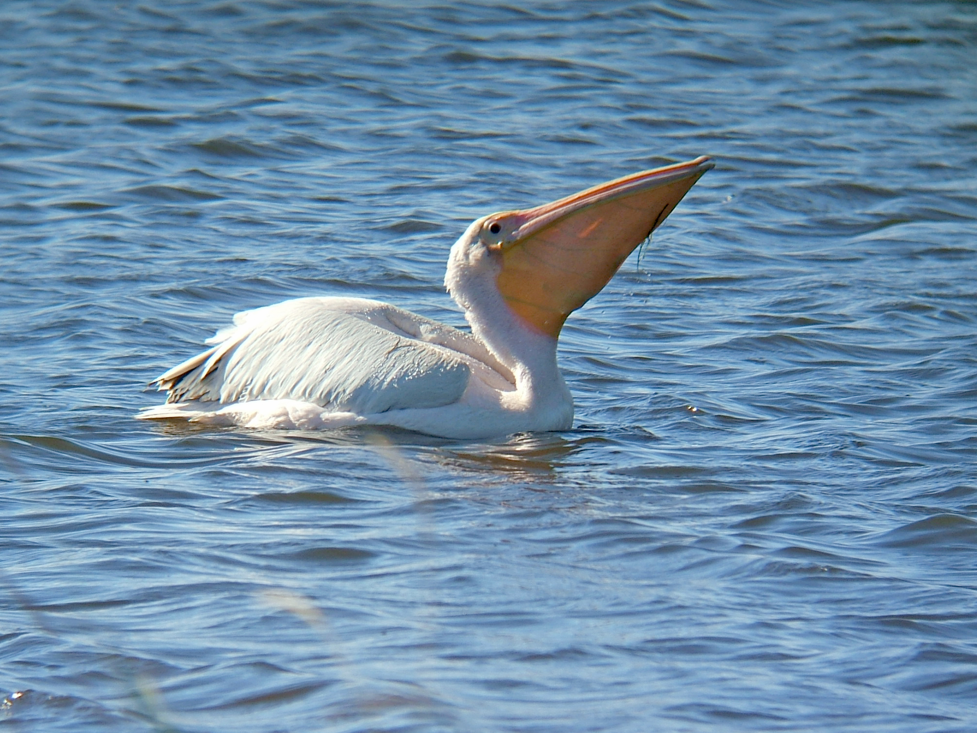 Great White Pelican Pelecanus onocrotalus, Cresswell Pond, Northumberland, UK; escape from captivity.